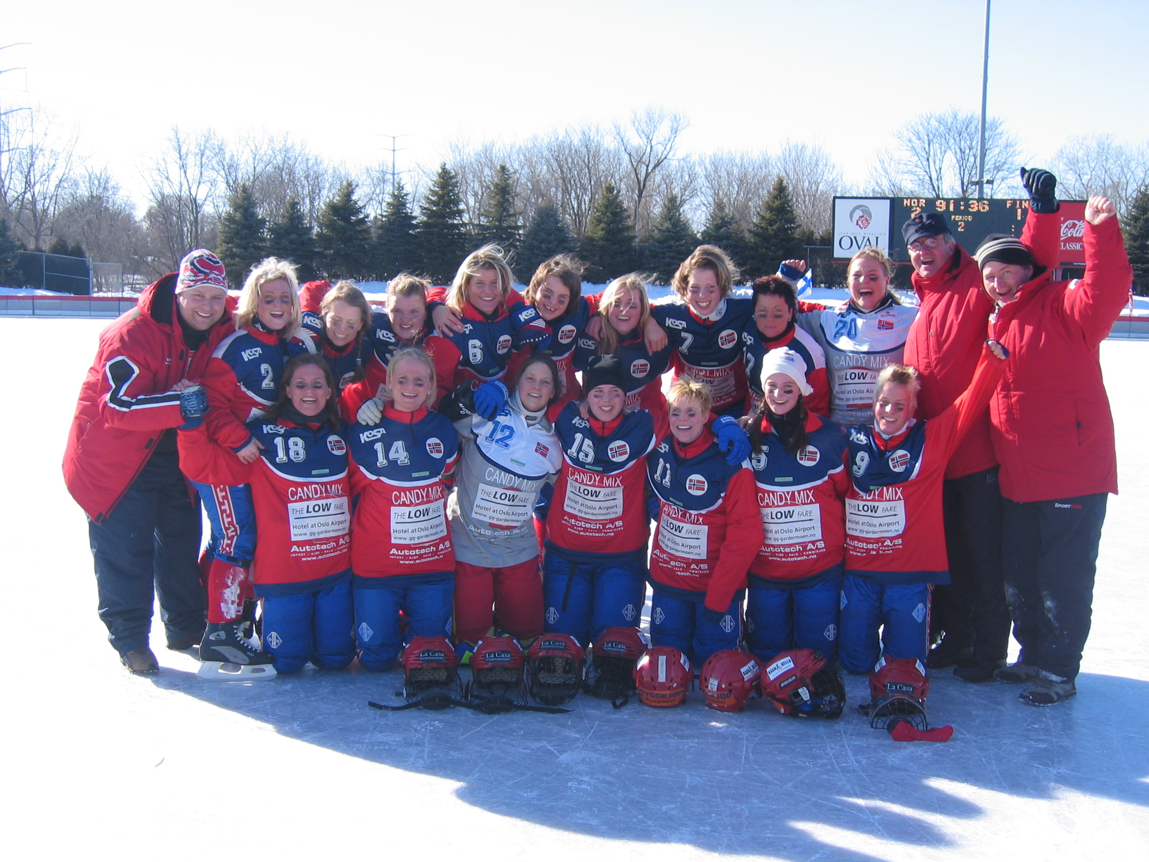 Description=Damelandslaget i bandy 2006 Source=own work Date=18.02.2006